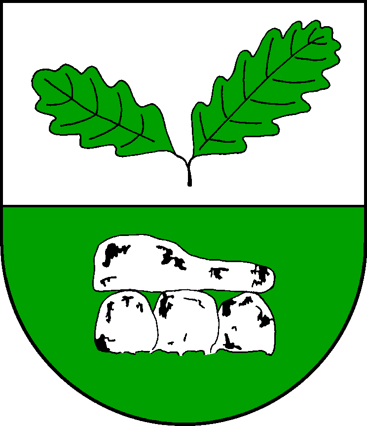 Coat of arms of the municipality Groß Vollstedt in Schleswig-Holstein, Germany.